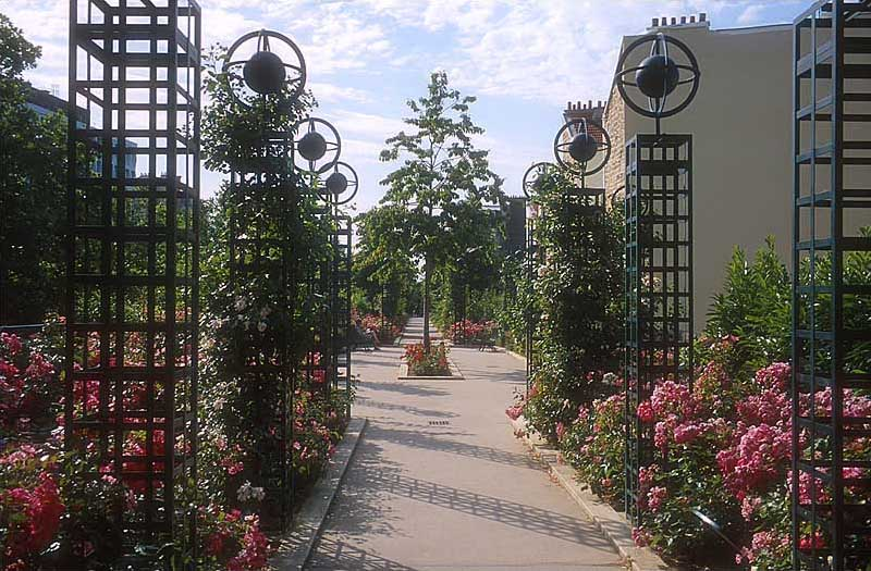 A view of the Promenade Plantée in Paris, looking west towards the Opera Bastille (although the Opera is not visible in the photo). Photographer: Anthony Atkielski (Agateller)